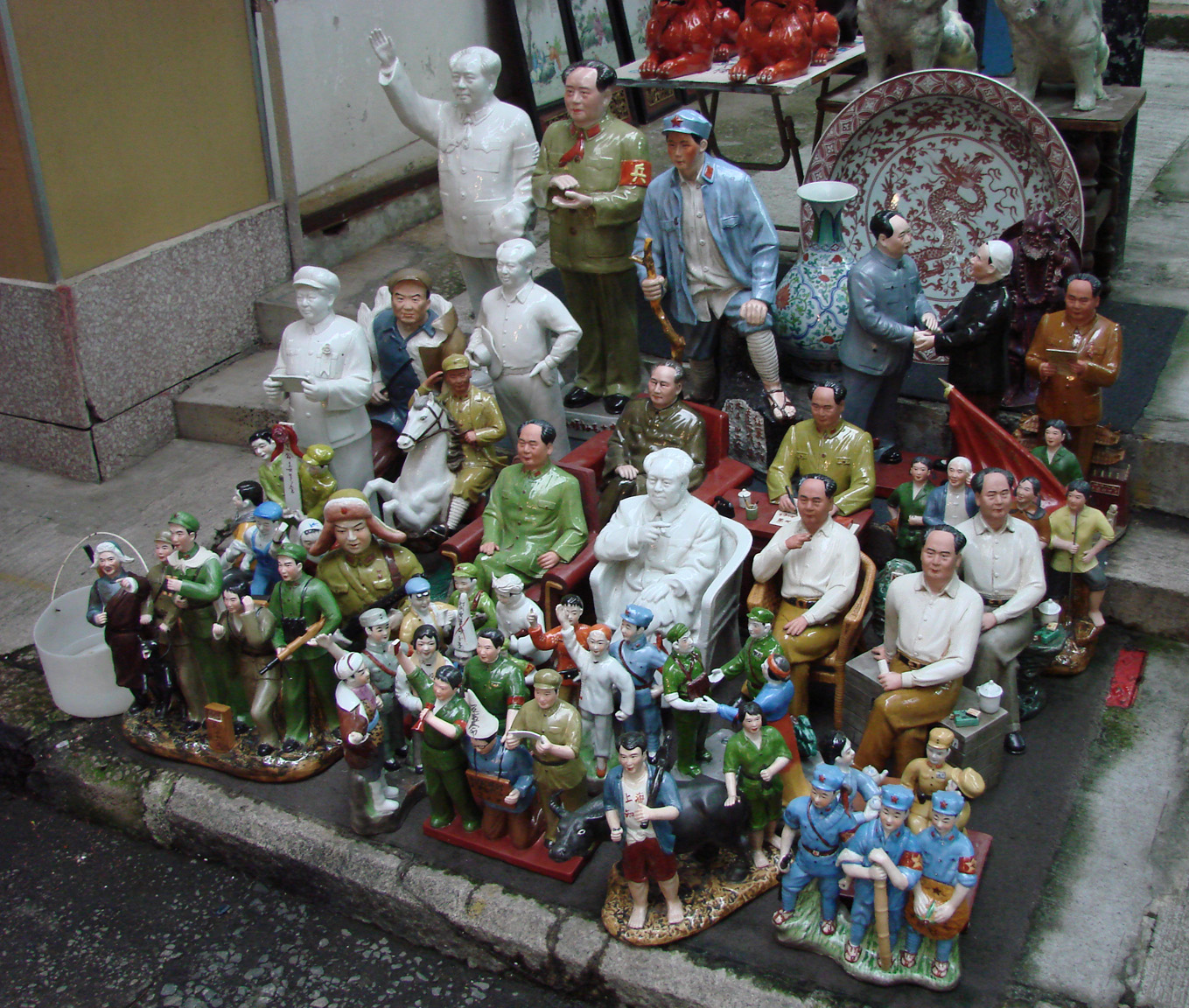 Souvenir of Mao Zedong and chinese revolution in an Hong Kong market